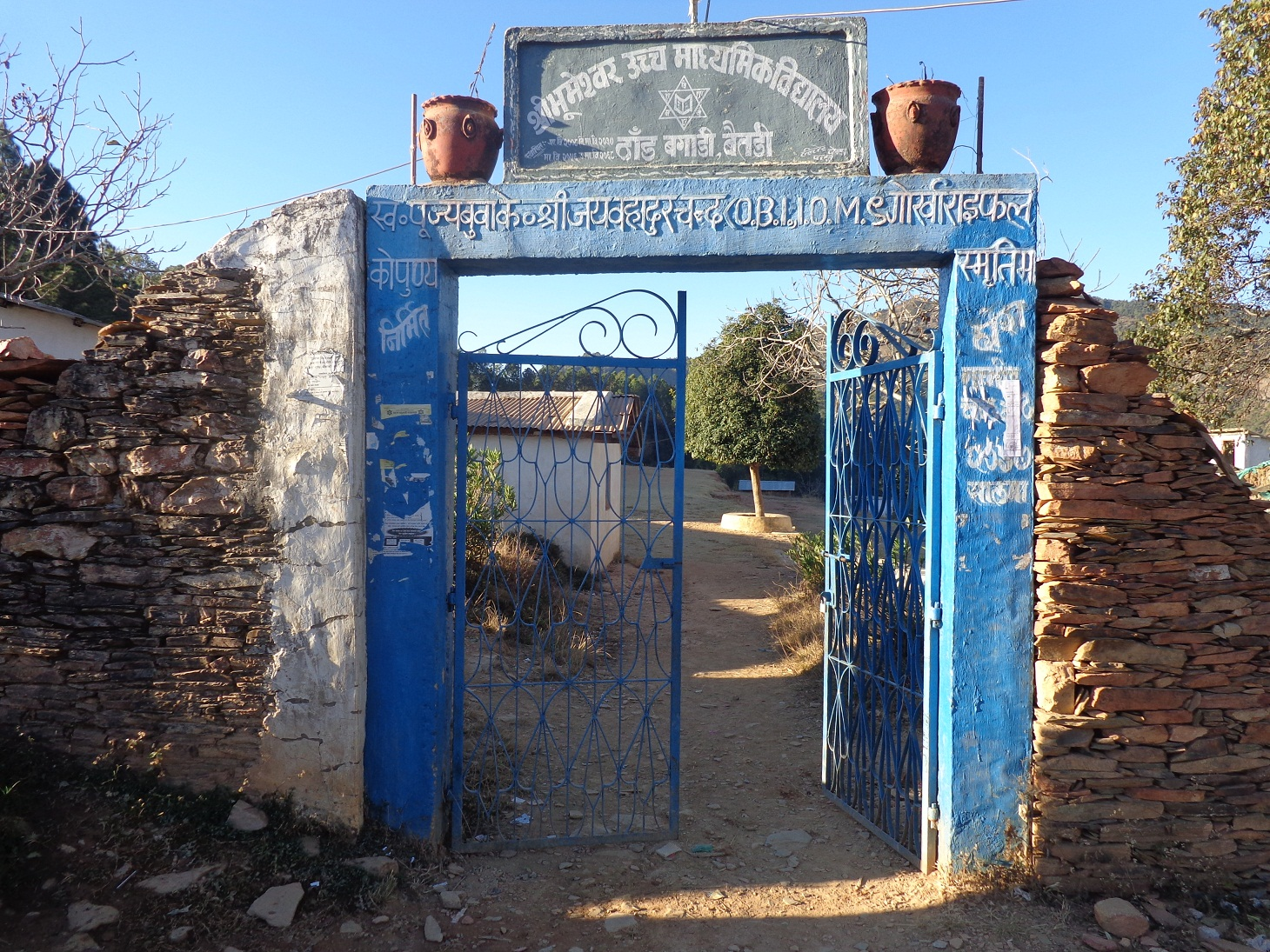 नेपाल भाषा: School of Bhumeshwar